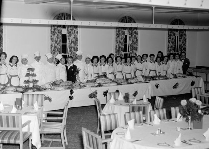 Buffet prepared by Chef Puvilland and his assistant cooks at the Mount Stephen Club, 1440, Drummond Street, Montreal, Quebec, Canada